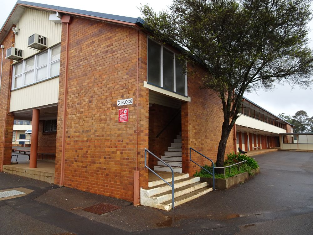 650037. Block C, northeast corner, flower box by steps. Looking southwest